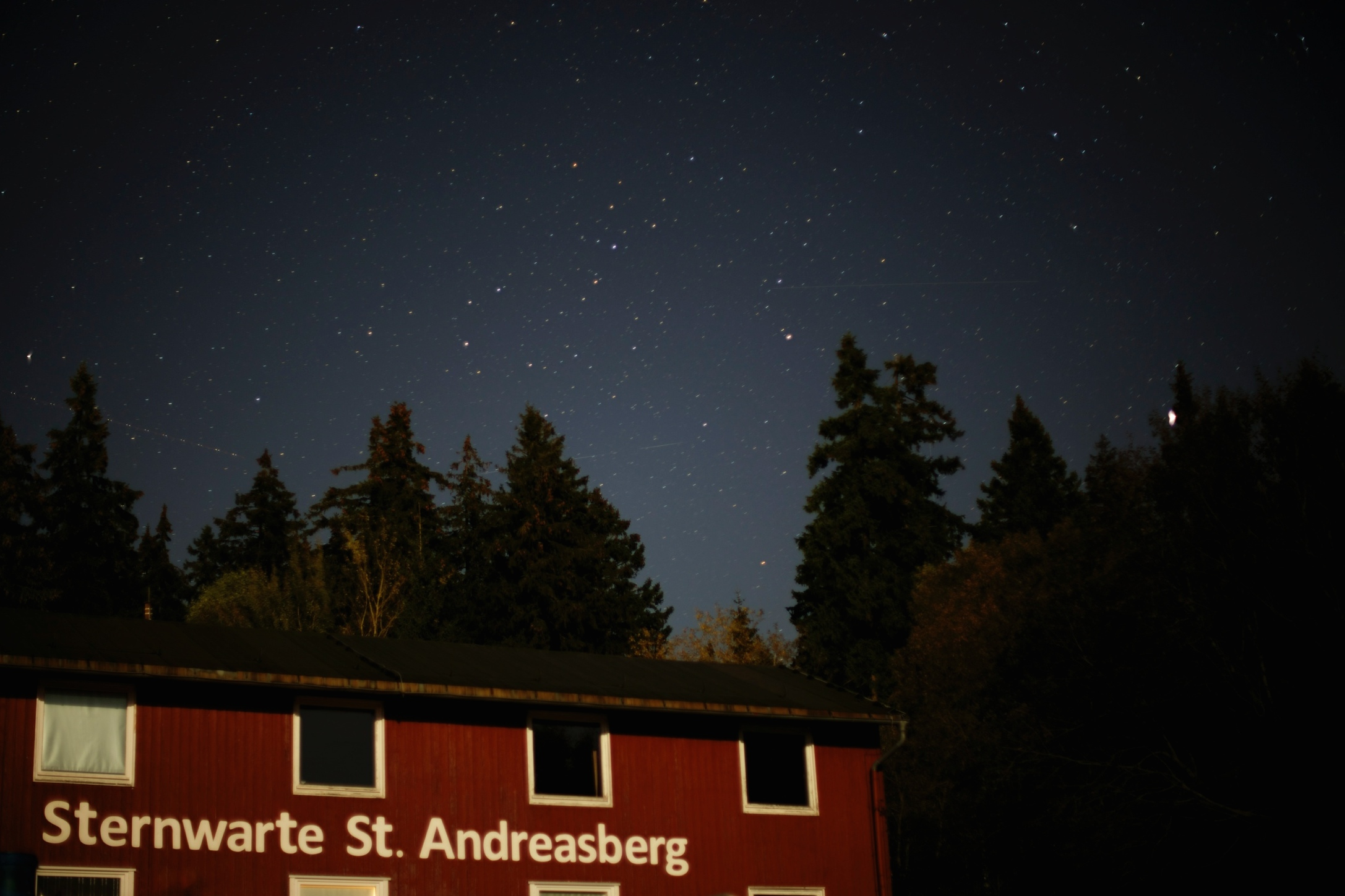 Night sky above the accesible astronomical obervatory in Sankt Andreasberg